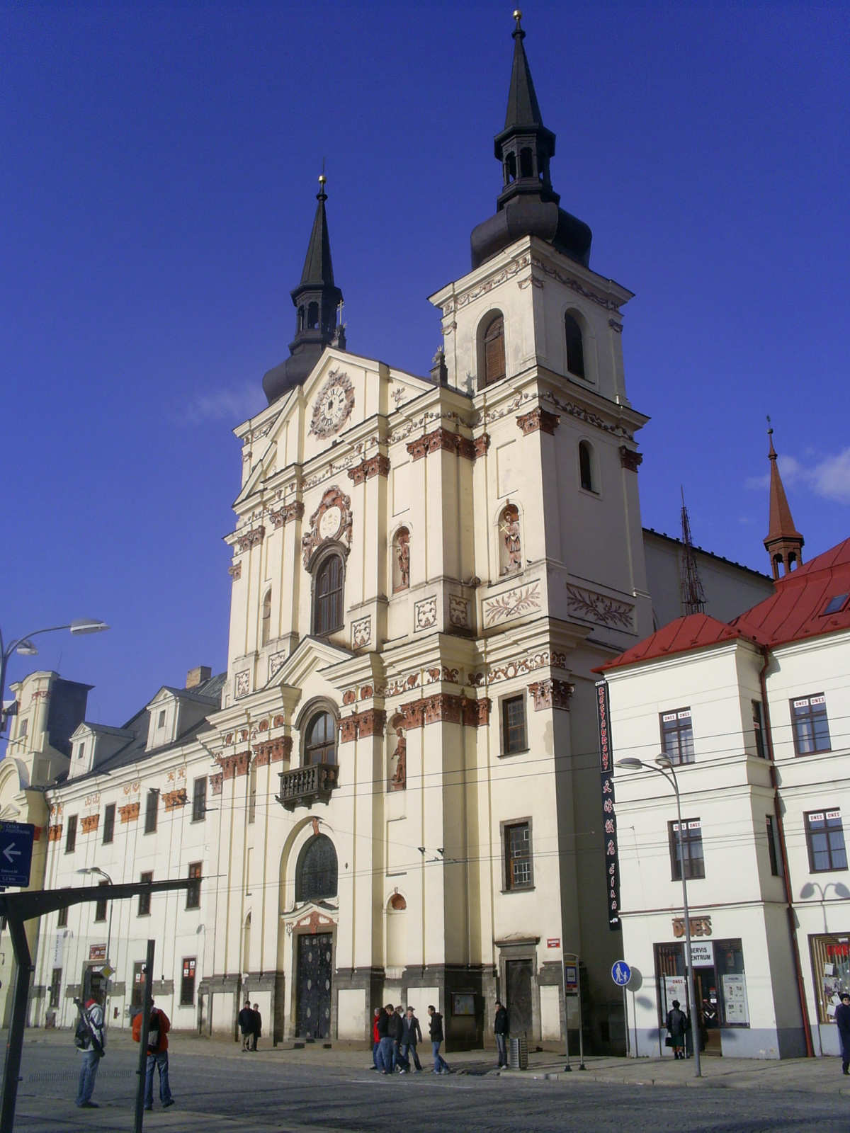 Churche in the town center of Jihlava (Jihlava-Czech Republic).